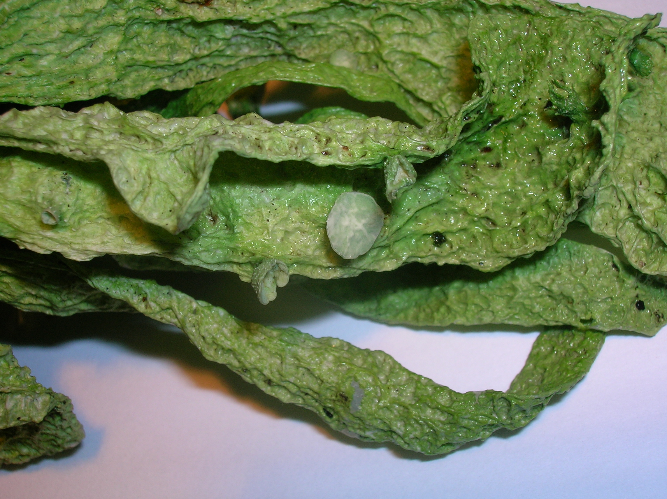 Ramalina fraxinae thallus and ascocarp